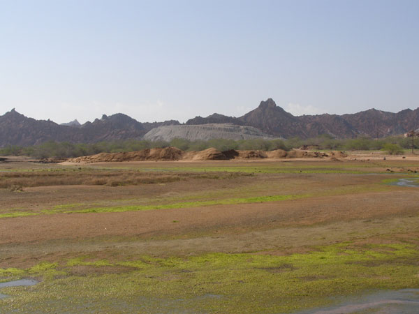 Hara forests, on Hormoz Island